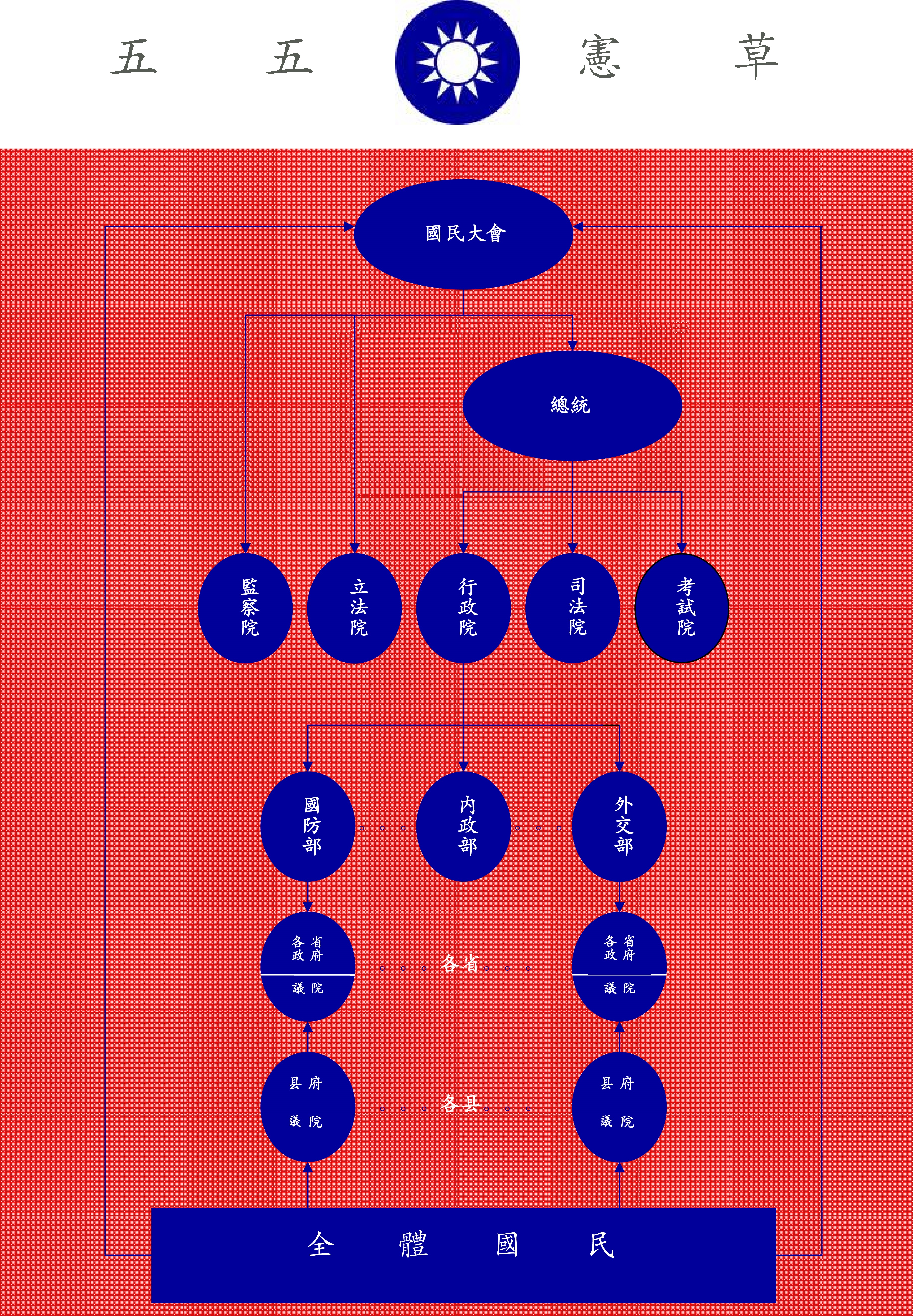 The structure draft of Constitution of R.O.China in 1936